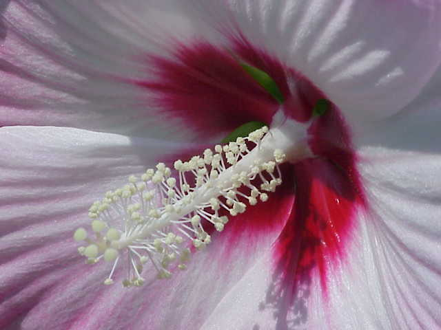 Species: Hibiscus moscheutos Family: Malvaceae Image No. 4